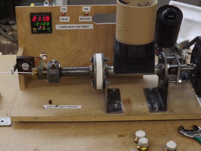 lyman filament extruder